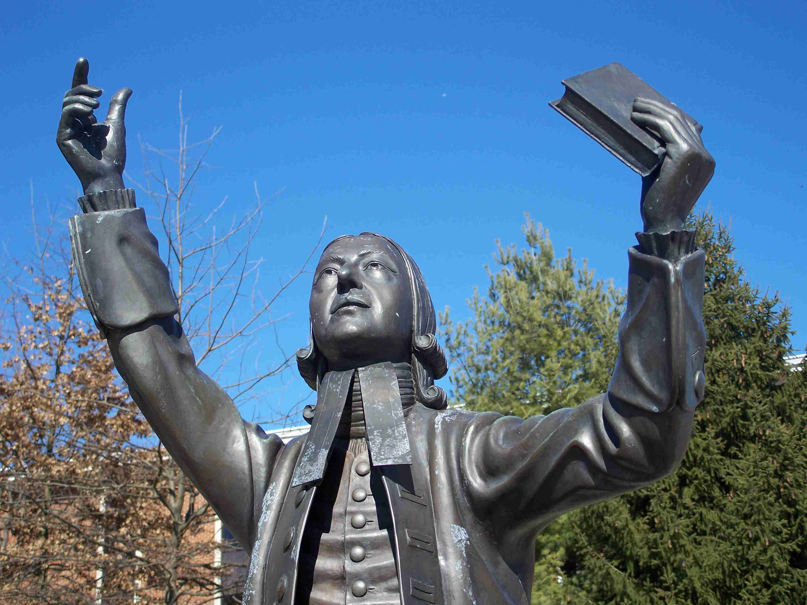 Statue of John Wesley, which is located in Wesley Square at Asbury Theological Seminary in Wilmore, Kentucky.